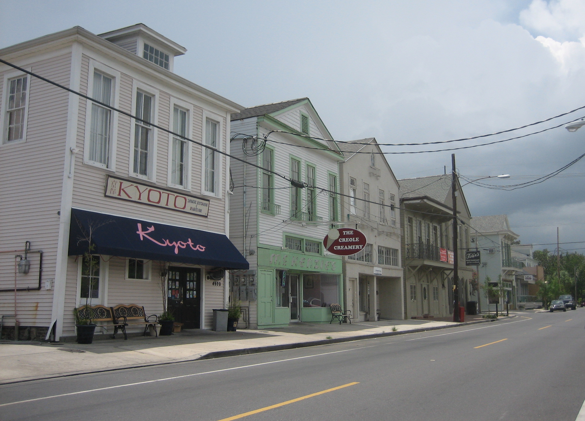 A block of Prytania Street, Uptown New Orleans, with local restaurants and shops. Photo by Infrogmation of New Orleans, 7 August 2006.